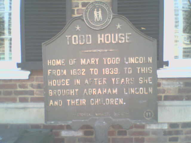 Kentucky Historical Marker describing Historical public building, the Mary Todd Lincoln House